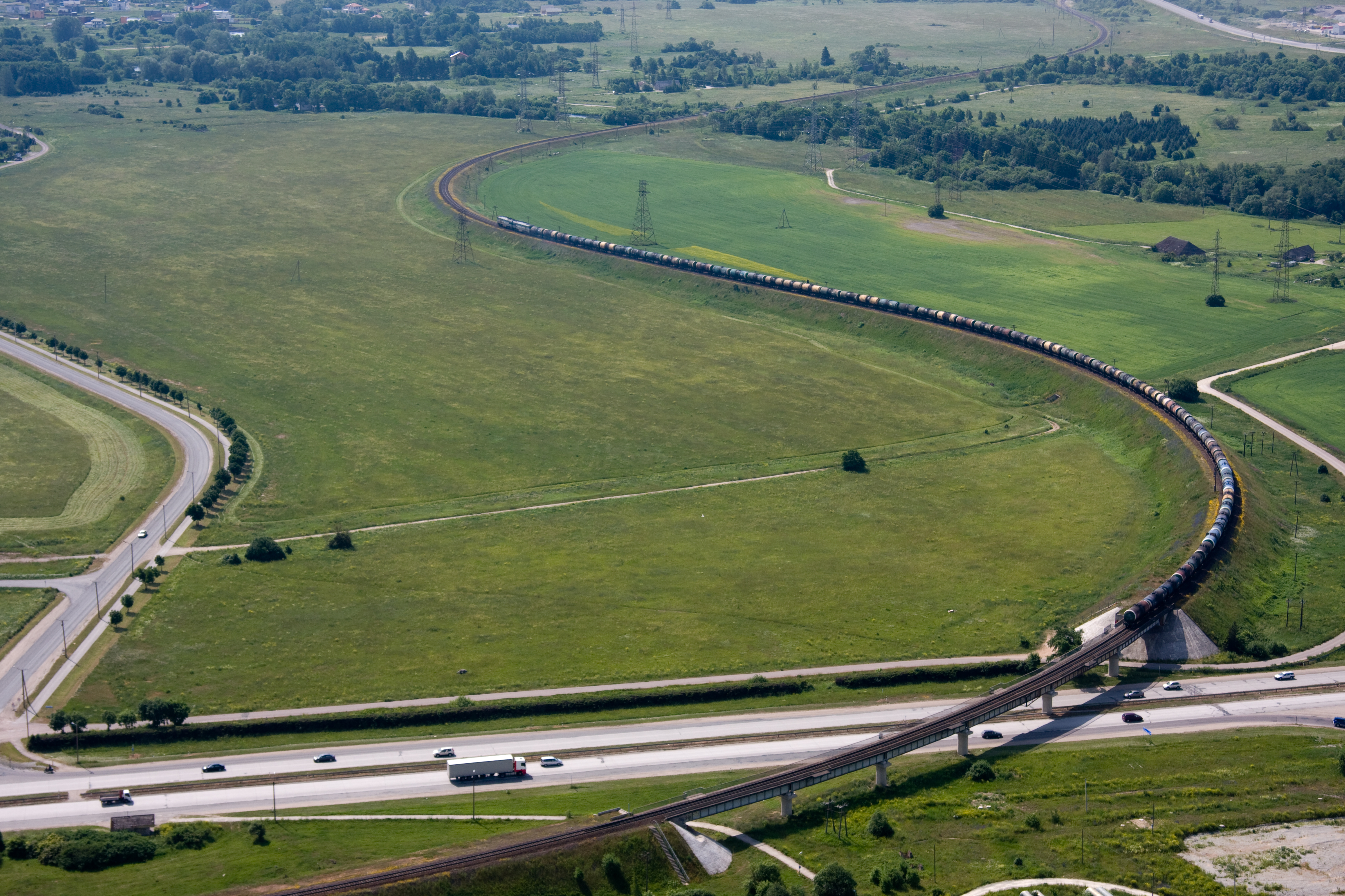 A freight train pulling 60 tank cars heading from Muuga towards Lagedi (near Tallinn, Estonia). Picture taken from top of the chimney of Iru Power Plant (h=202 m).